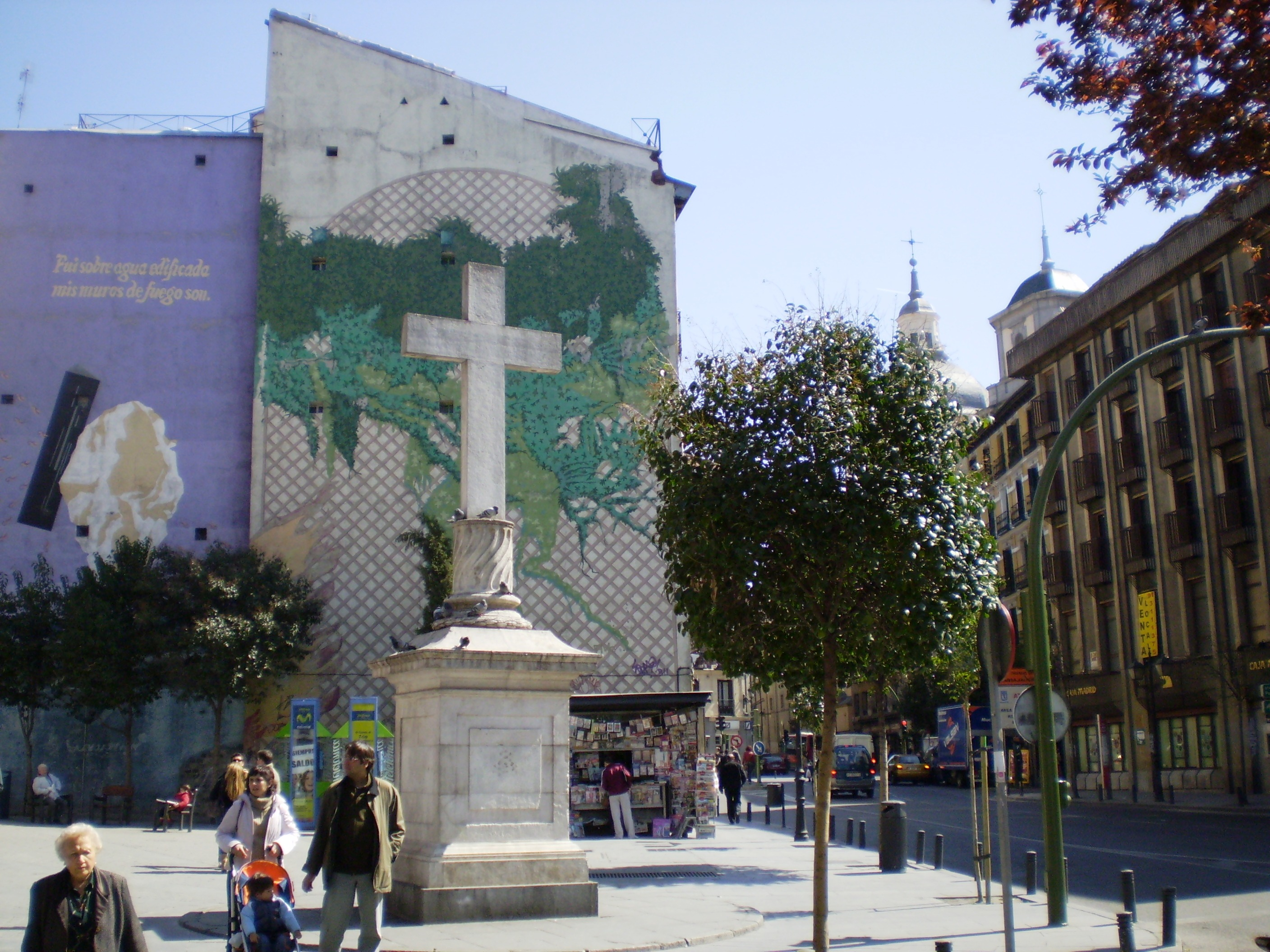 Puerta Cerrada Square. Madrid, Spain